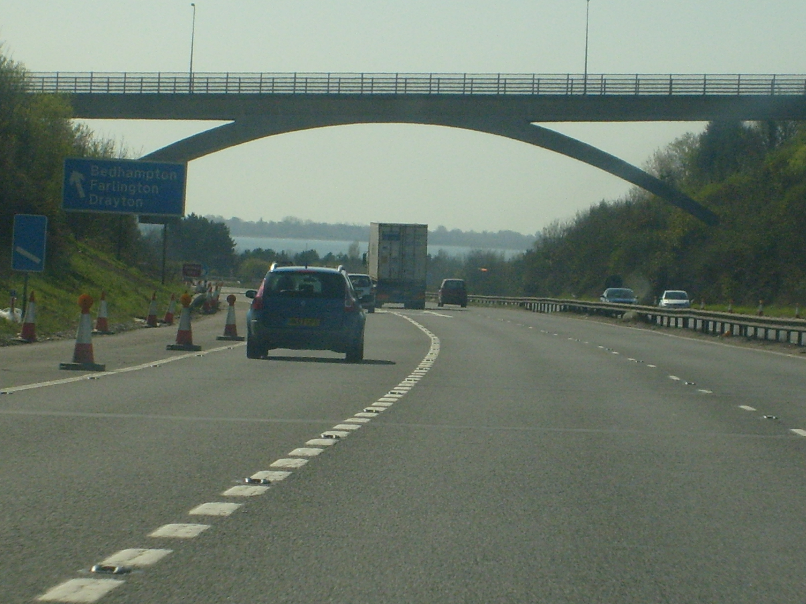 The A3 near the Portsdown Hill Hill bridge heading towards Junction 5 with the A27.